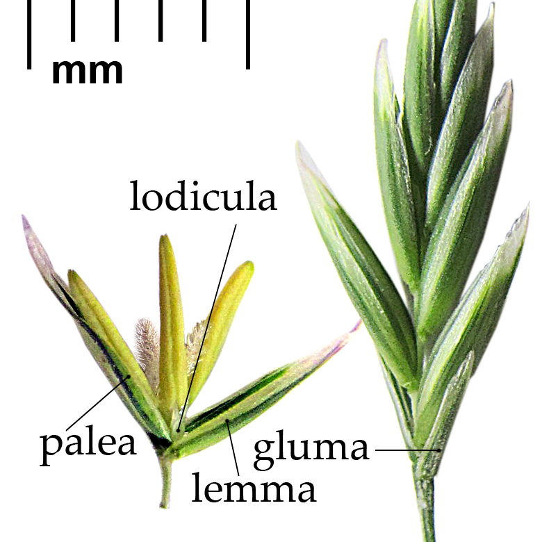 Dactylis glomerata different types of bracts